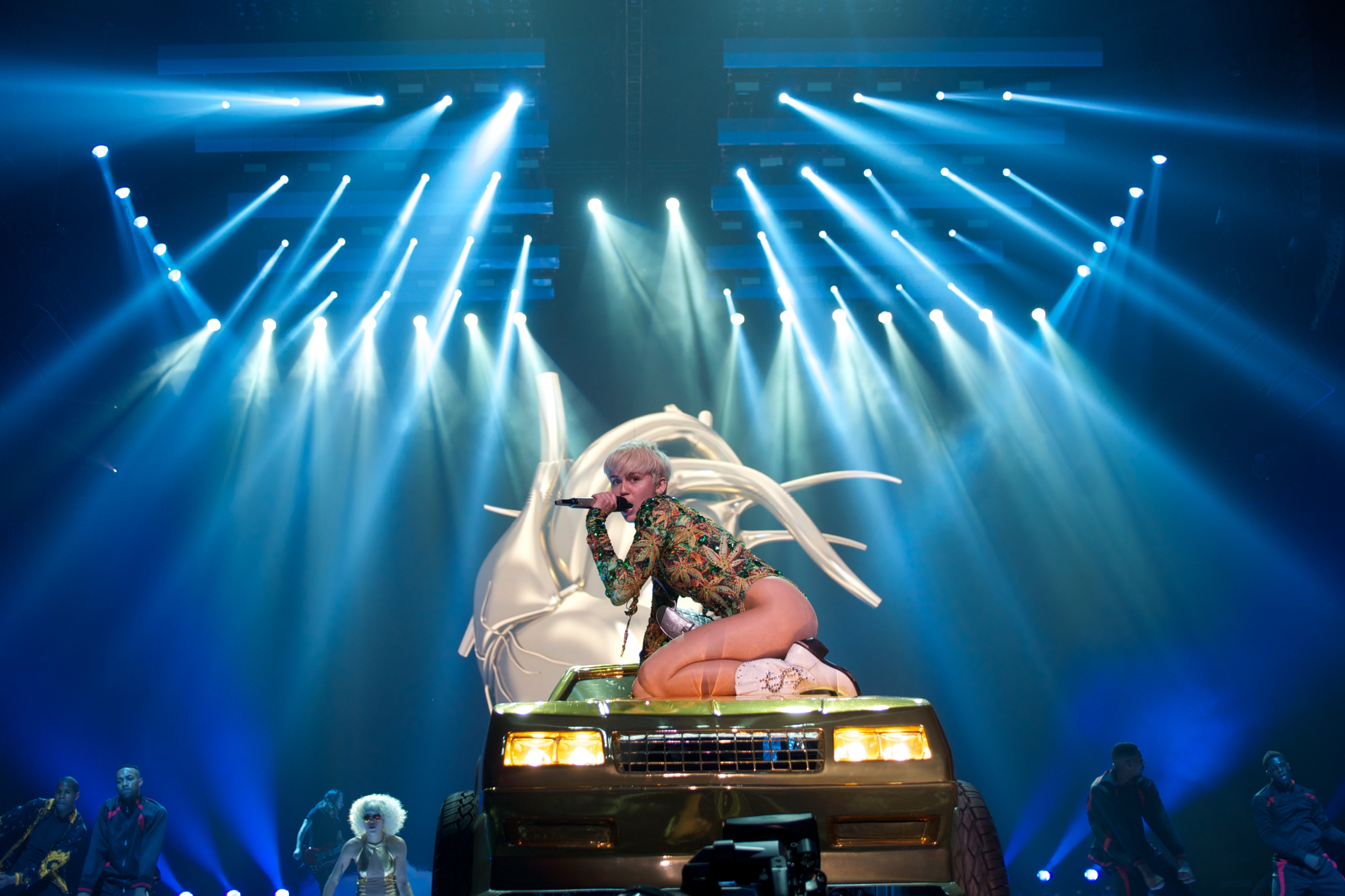 Miley Cyrus performing in Vancouver in 2014